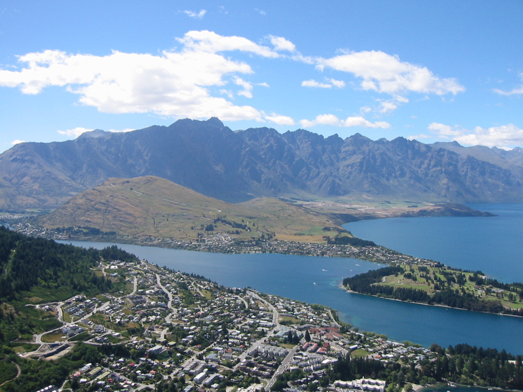 View from the top of the gondola into Queenstown, New Zealand, with Remarkables behind. Susan Kelley, also on Flickr at